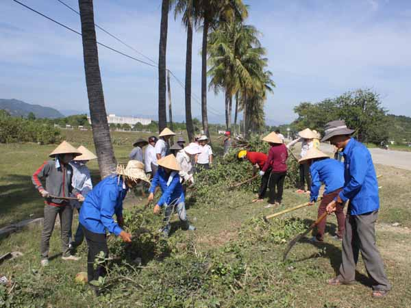 QL 27